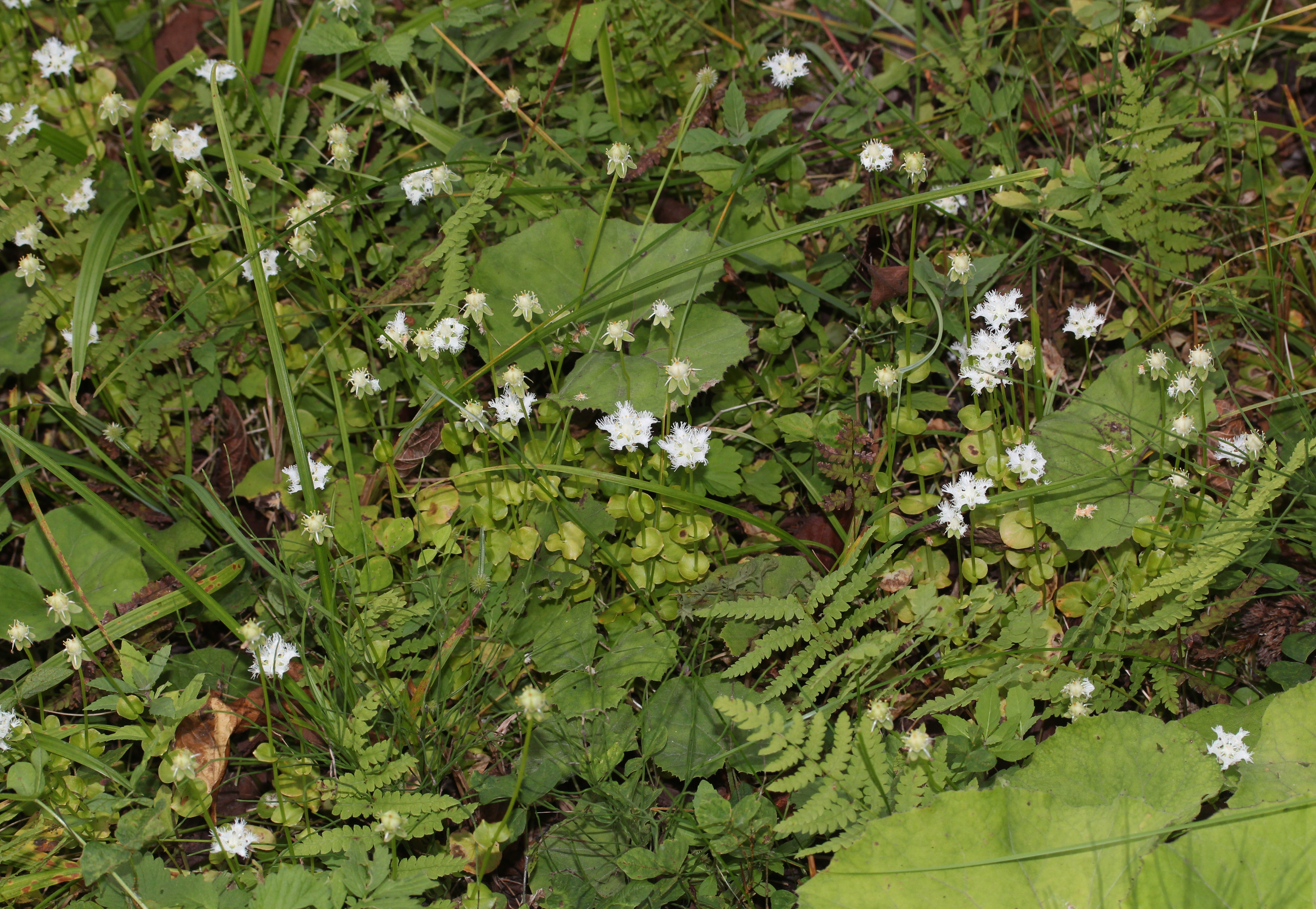 Parnassia foliosa var. nummularia in Hirugano bog botanical garden, Gujō, Gifu prefecture, Japan.